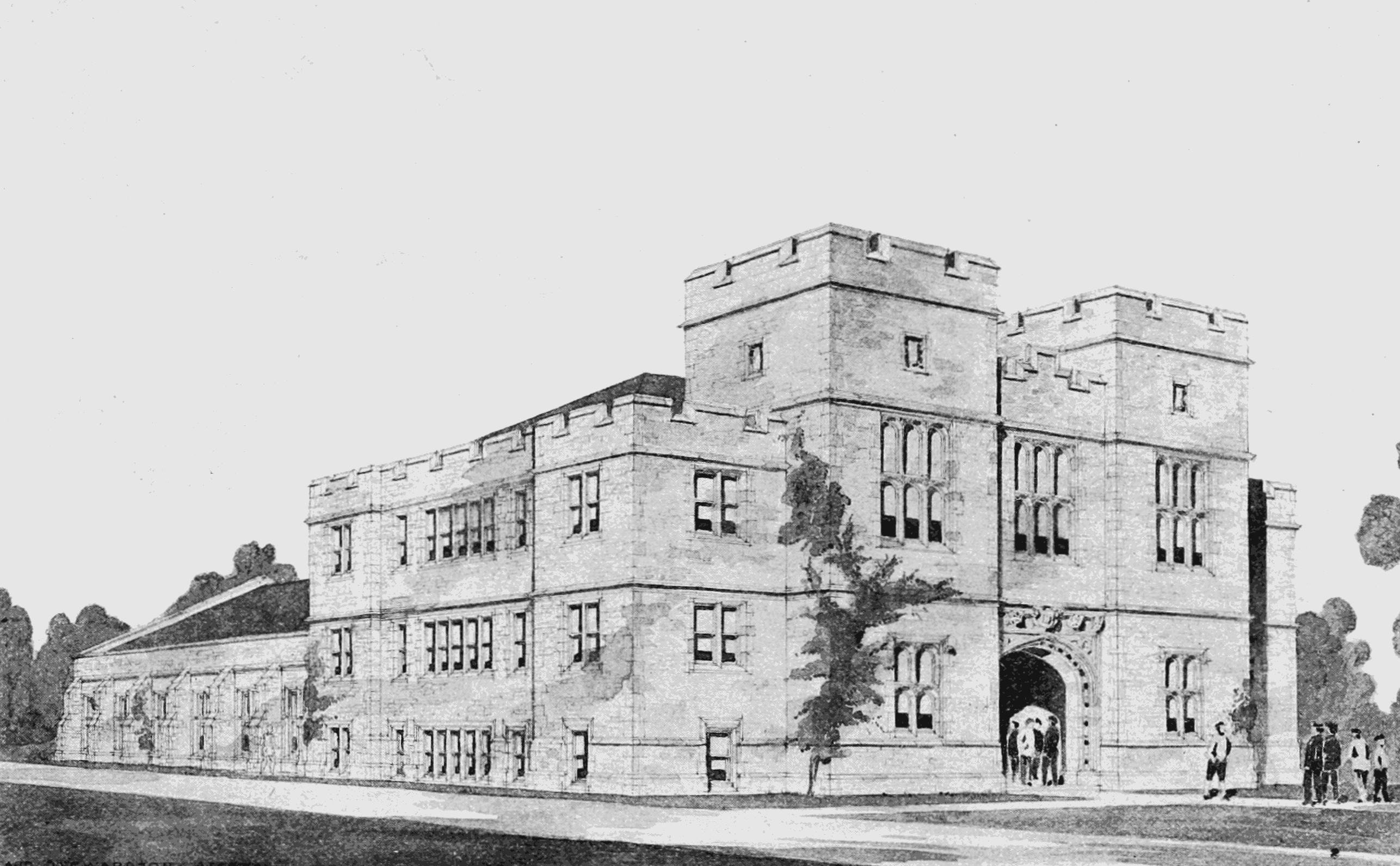 Gymnasium Washington University in St. Louis